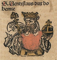 This is a part of a scan of an historical document: Title: Schedelsche Weltchronik or Nuremberg Chronicle